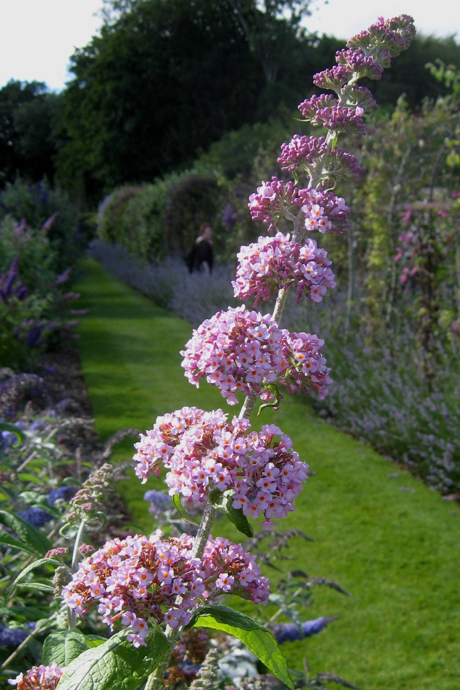 Photo of Buddleja cultivar 'Pink Pagoda' taken at Longstock Park, UK, August 2012